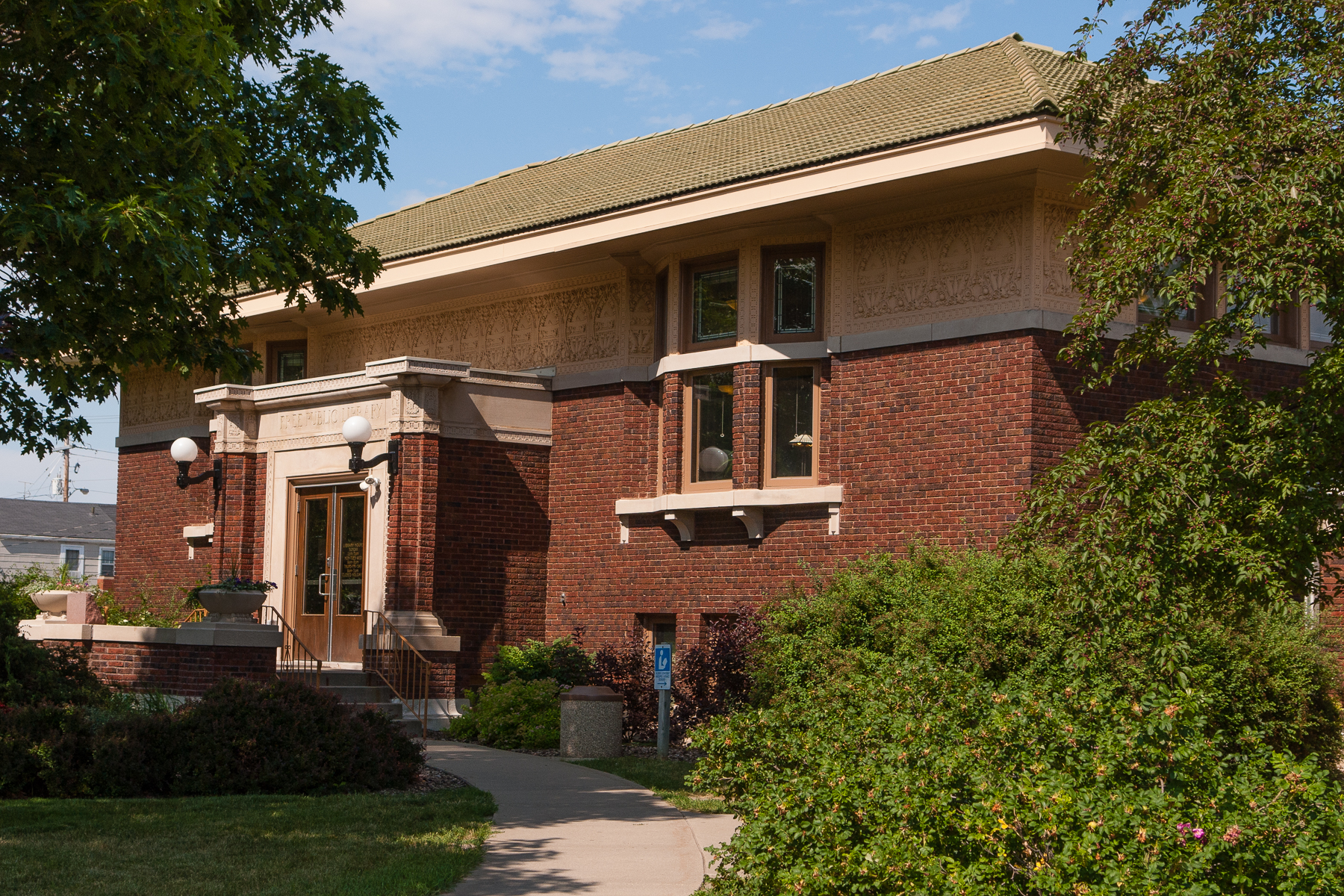 Tomah Public Library, view of west side